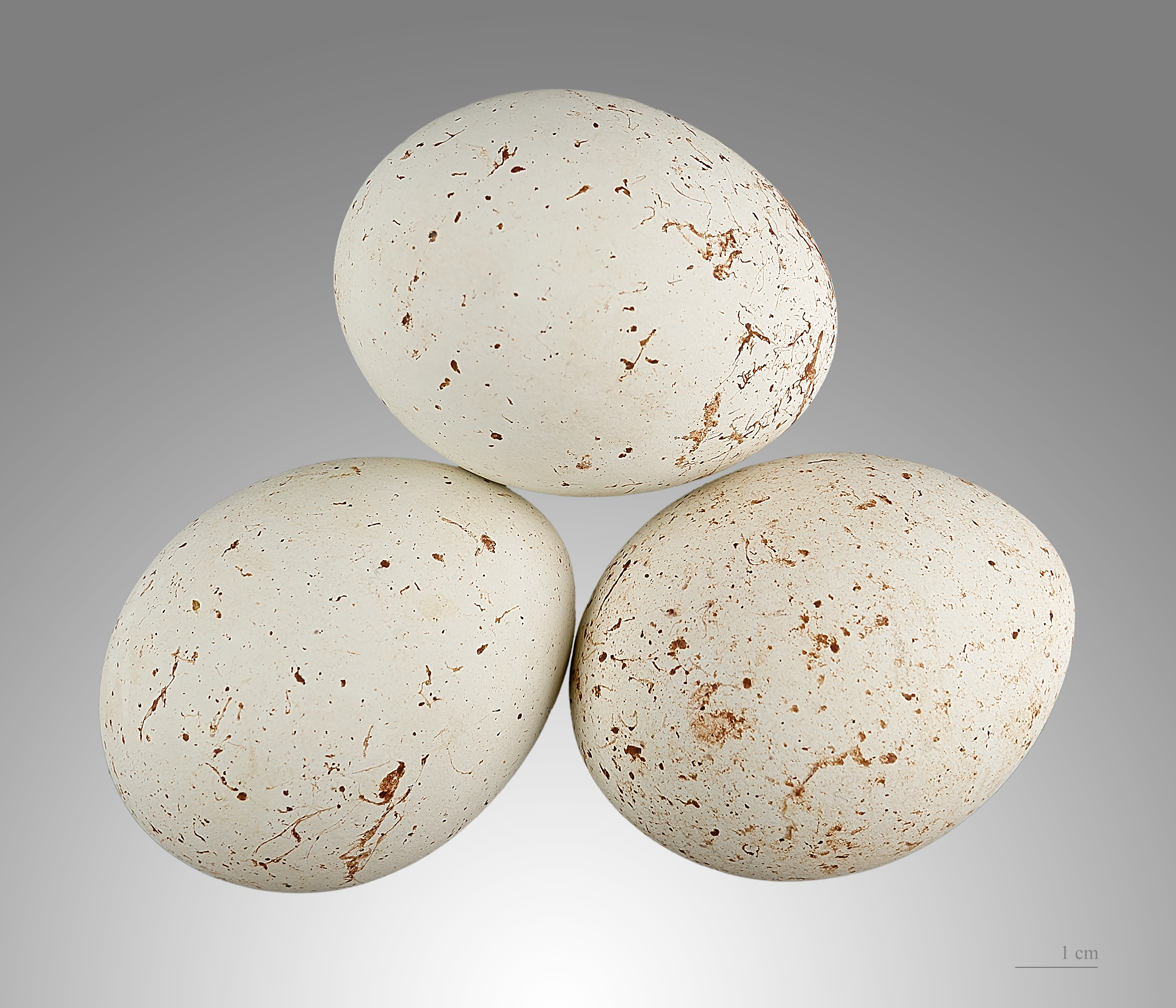 Egg of Black Kite . Collection of René de Naurois / Jacques Perrin de Brichambaut.